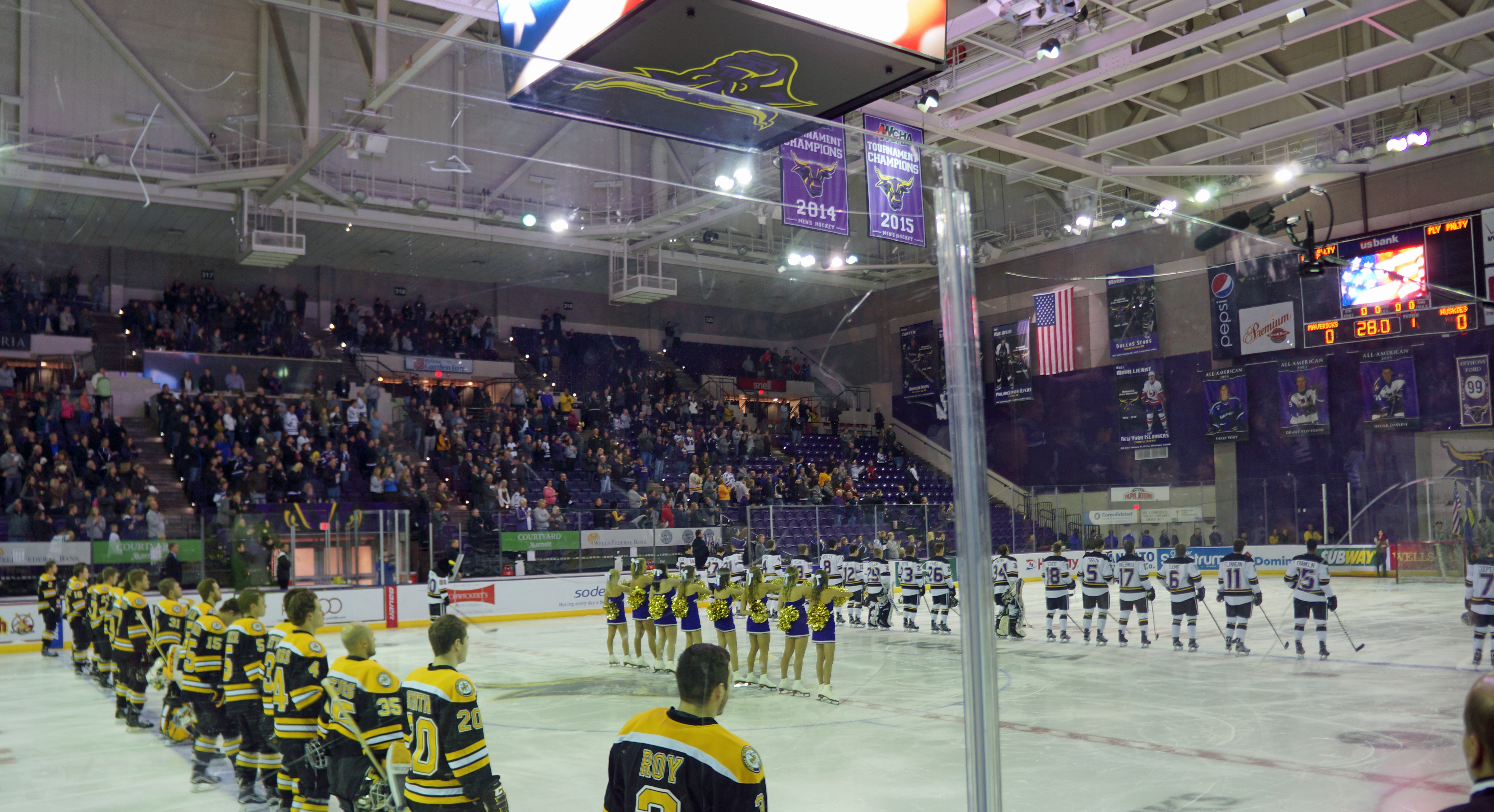 Verizon Wireless Center Ice Arena inside during start of game